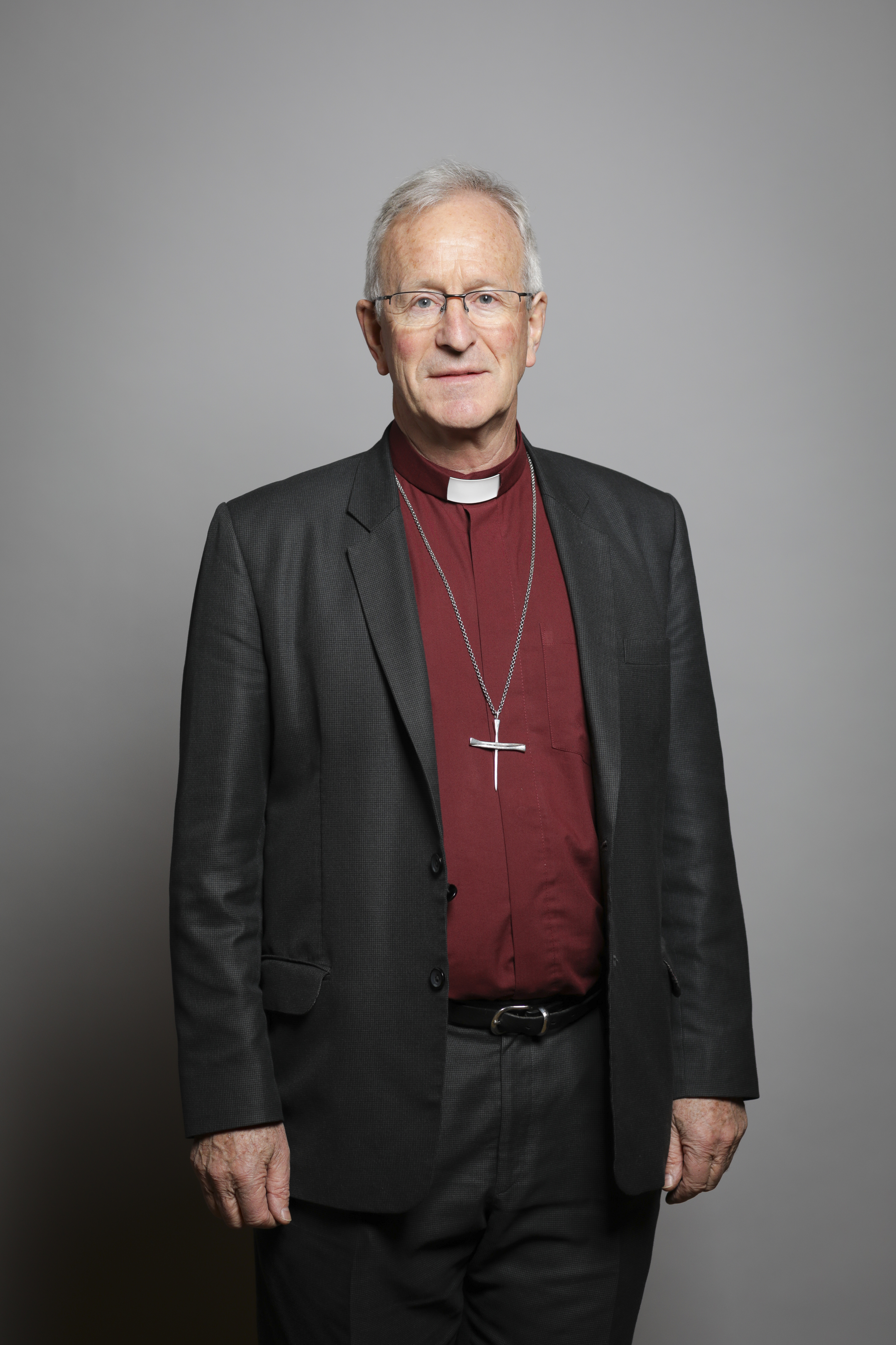 Official portrait of The Lord Bishop of Birmingham Full sized portrait of The Lord Bishop of Birmingham